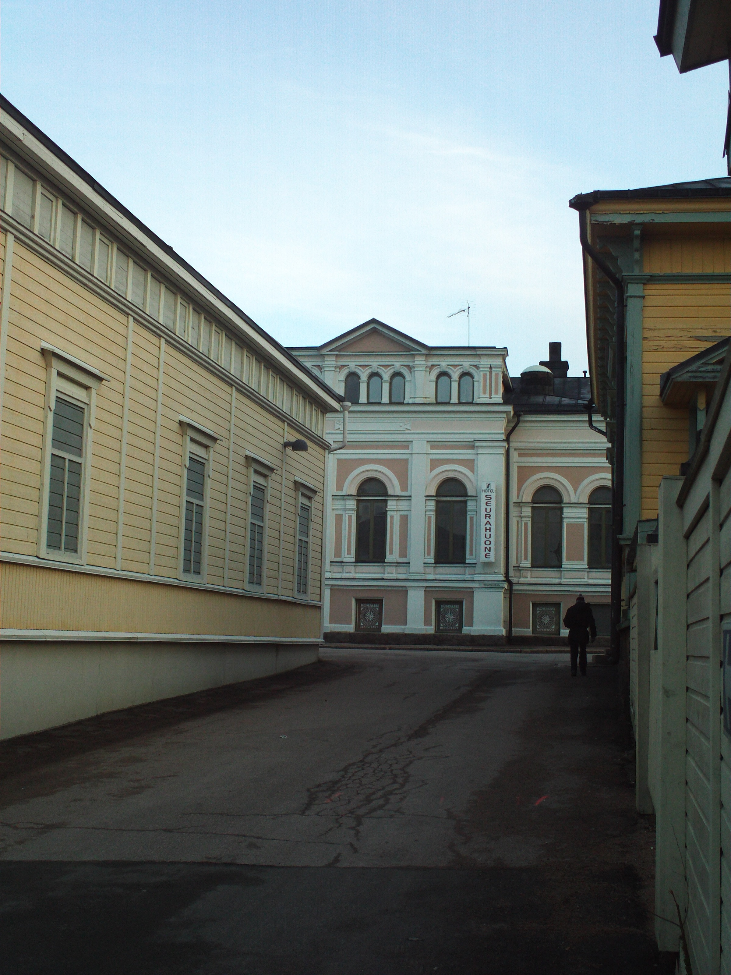 Hamina. The narrow Torikatu ("Market street") in Hamina's old town, Hamina.